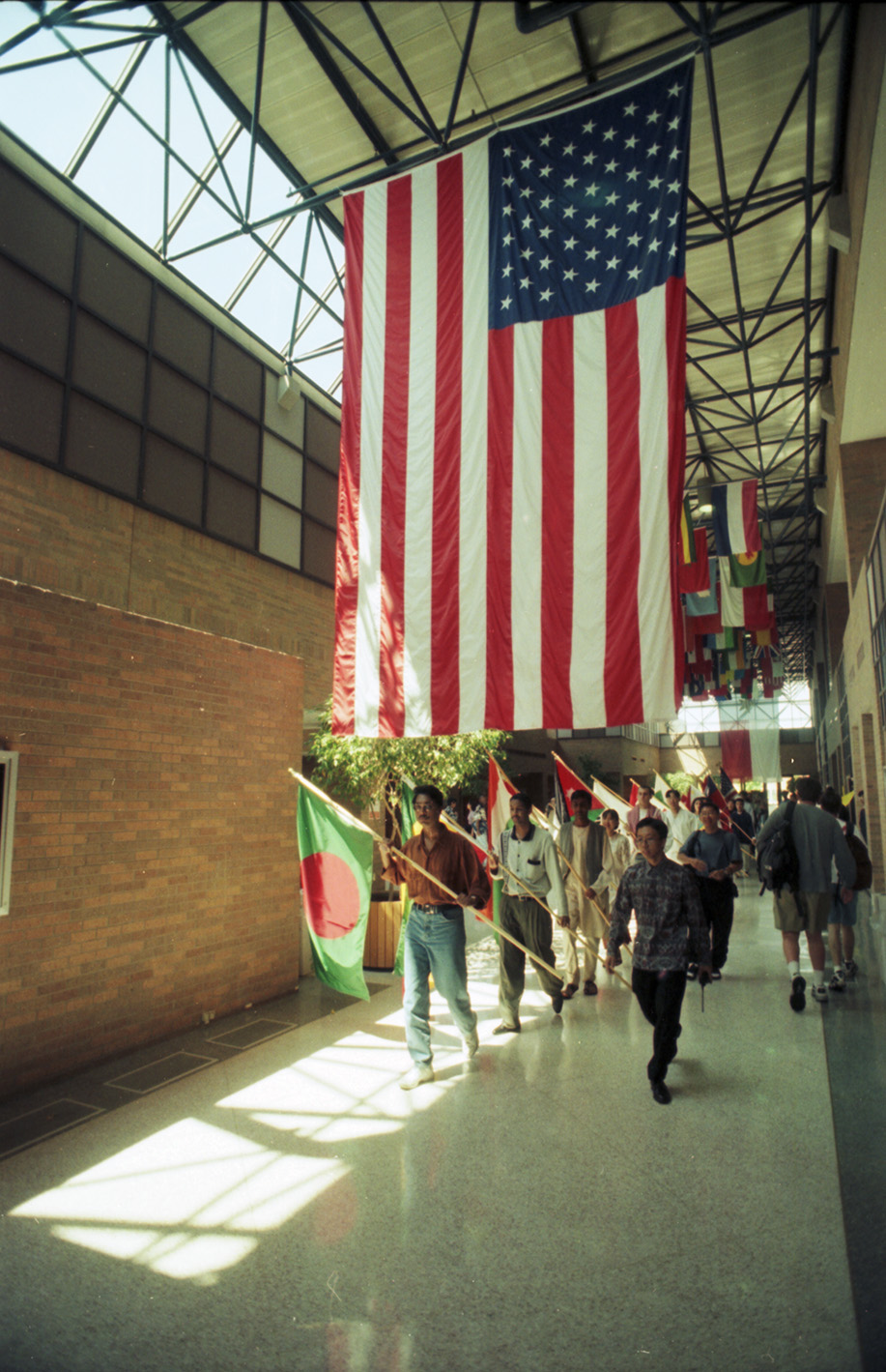 University of Texas at Arlington Hall of Flags ceremony with students each carrying their nation's flag. The first flag that is being held by the first student is the Bangladesh flag. There are flags that hanging from the ceiling, visible flags include, the American flag and the French flag.